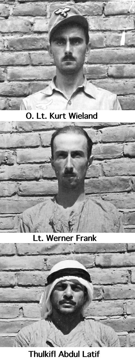 Photographs of three captured parachutists of Operation Atlas, Palestine 1944.